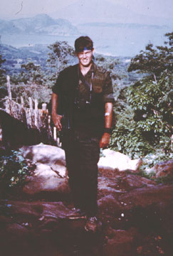 Cork Graham in El Salvador, circa 1986